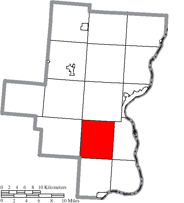 Map of the municipal and township boundaries of Gallia County, Ohio, United States, as of the 2000 census, with the location of Harrison Township highlighted. Township borders are shown only in unincorporated areas in order to differentiate incorporated and unincorporated areas more clearly.